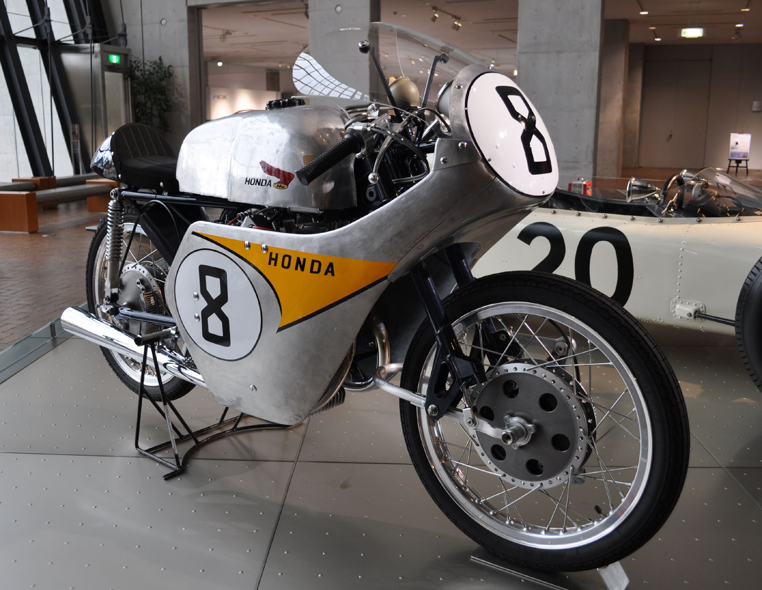 Honda RC142 (1959, Naomi Tanigchi). The machine which was restored.